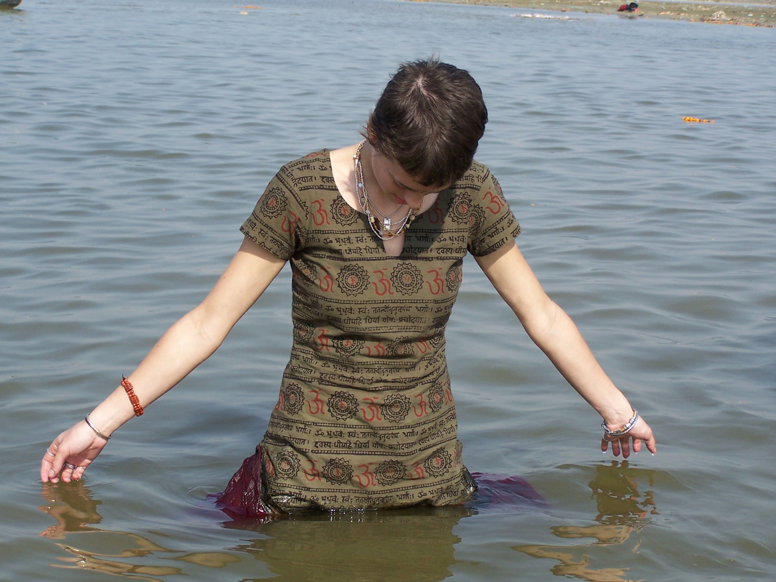 European woman clad in a kurti with Hindu symbols (aum and yantras) on it, prepares to bathe in the Ganga during Kumbh Mela.